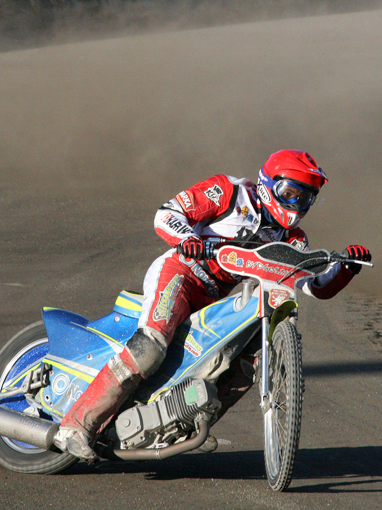 Swedish speedway rider Antonio Lindbäck during match between Polonia Bydgoszcz and Unibax Toruń (April 19, 2009)